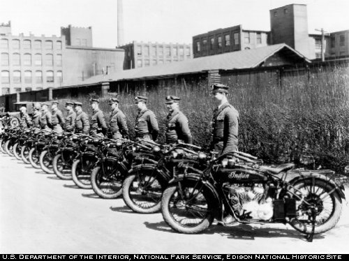 Indian Scout police motorcycles, circa 1920s